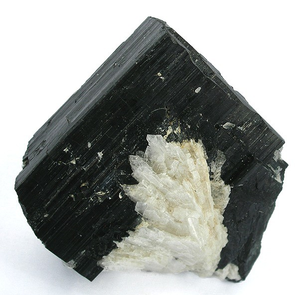 Tantalite-(Fe) Locality: Linópolis, Divino das Laranjeiras, Doce valley, Minas Gerais, Southeast Region, Brazil (Locality at ) Size: 5.8 x 4.9 x 2.8 cm. This is a heavy (163 grams), sharp crystal with stunning lustre and unusually equant form. The thin striations that run laterally along the large faces give it depth and dimensionality, though it is overall a thin crystal relative to its width in front. It is complete on the top and right/upper terminations and complete on most of the downward pointing left termination as well. The small flower of crystallized albite is a contrast in the center is a fine accent.